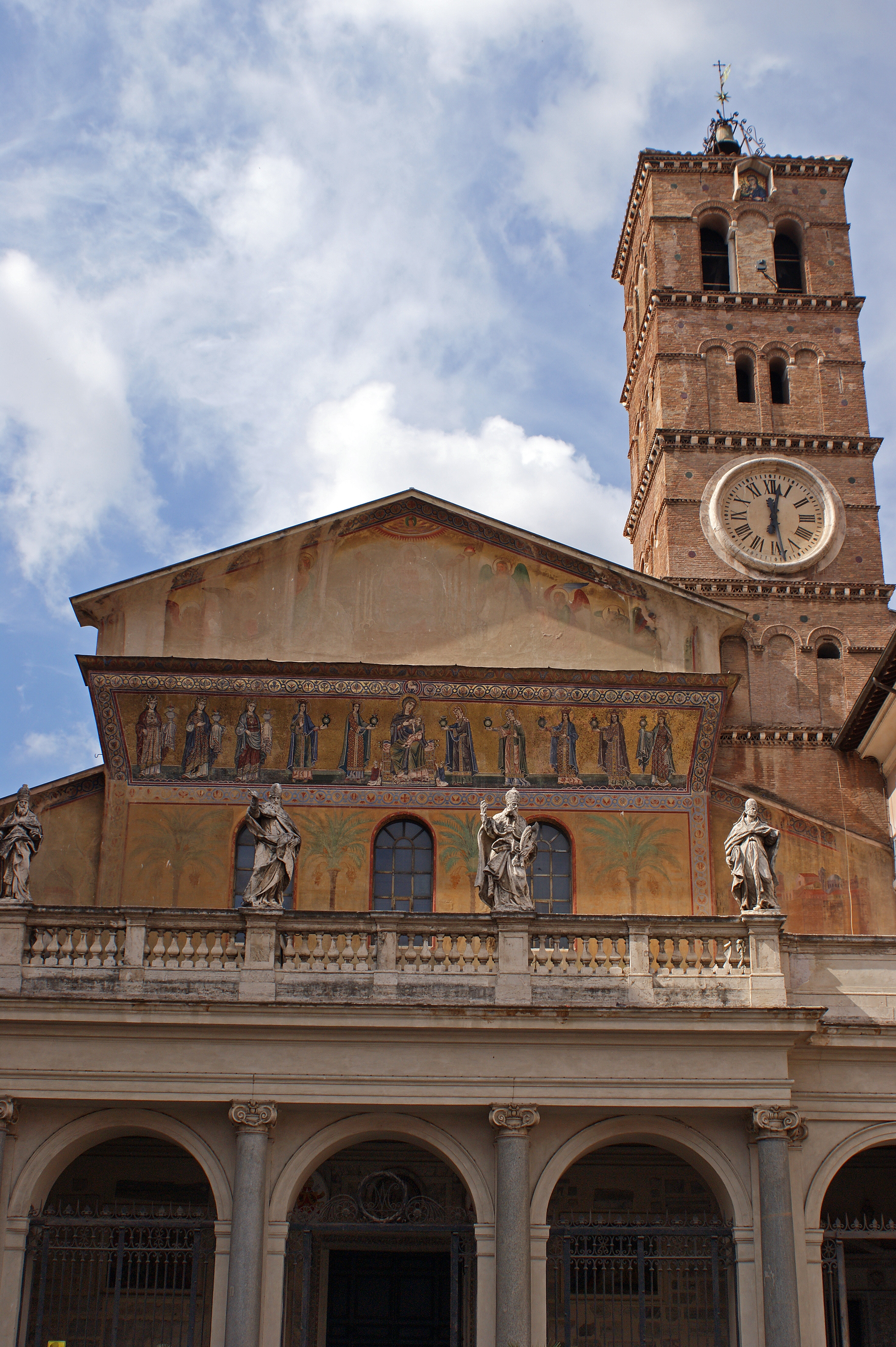 S. Maria in Trastevere - one of the oldest churches in Rome